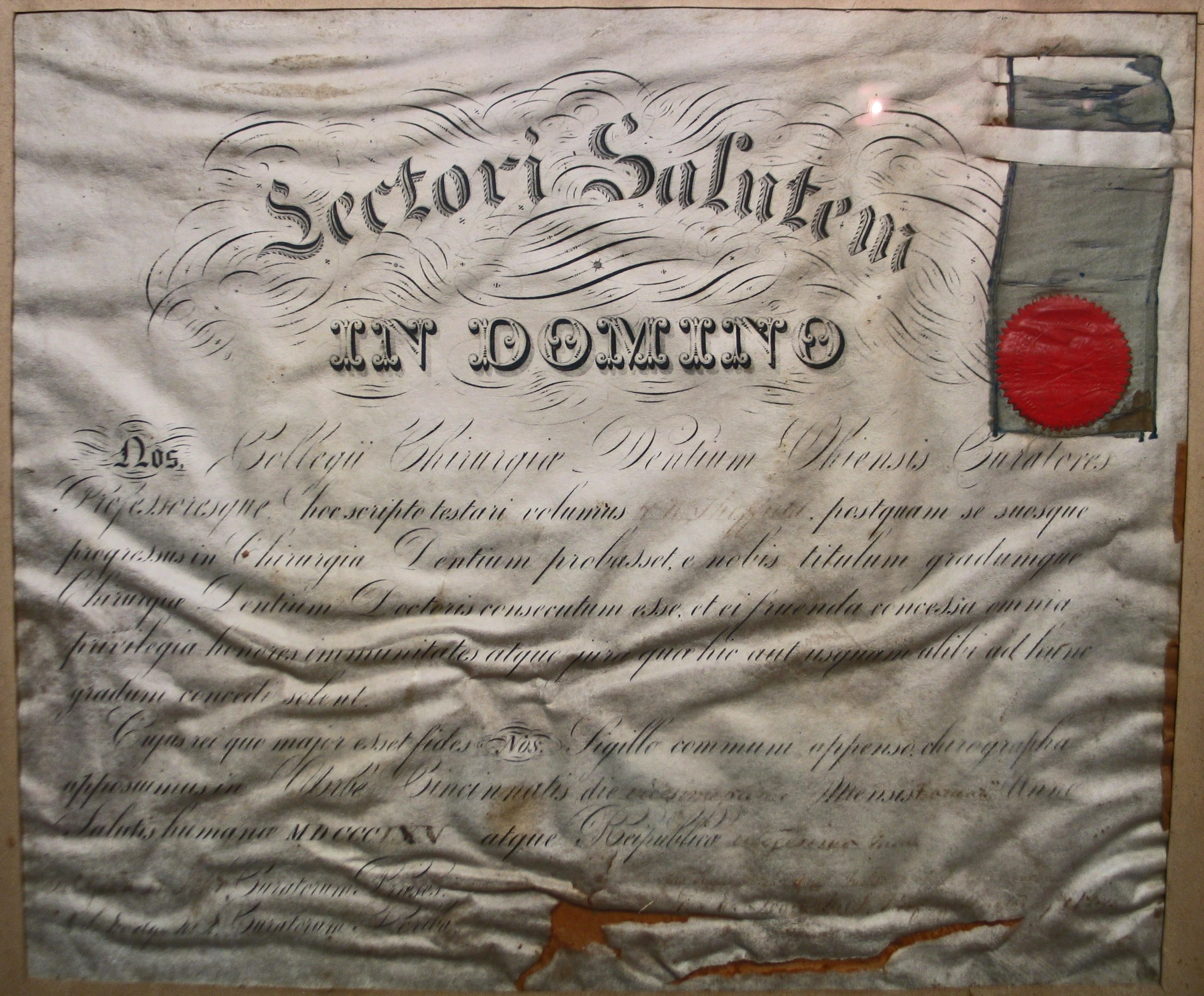 Dr. W.W. Sheffield’s Diploma, Ohio College of Dental Surgery, 1865